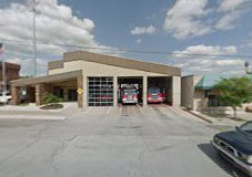 The Sand Springs fire station #1